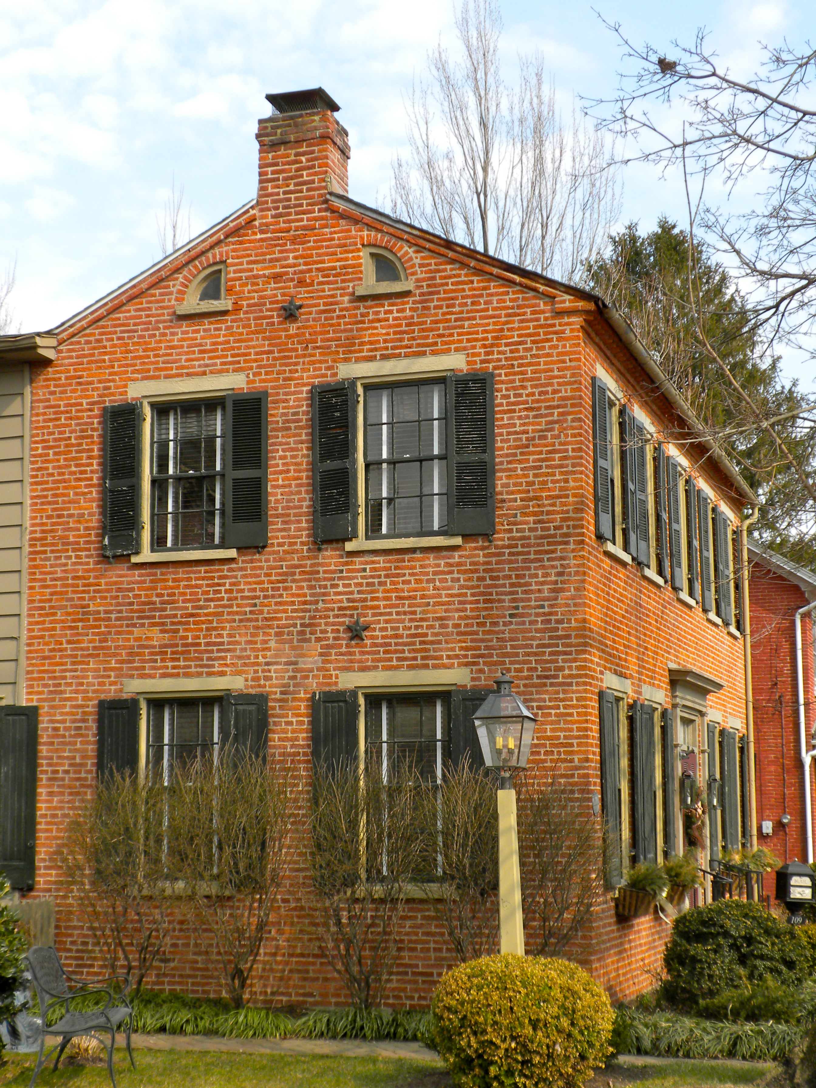 109 E. Main Street, Strasburg, PA, 2 story brick residence of Federal style. C. 1820 with local society historical plaque. The town of Strasburg is a Historic District on the NRHP since March 3, 1983 The HD covers East and West Main, West Miller, and South Decatur Streets, which is most of the town. Complete inventory of houses in the Historic District available at [1]